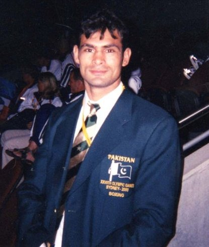 2000 Sydney,Australia Olympics